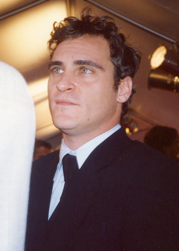 Joaquin Phoenix at the premiere of Walk the Line, Toronto Film Festival 2005